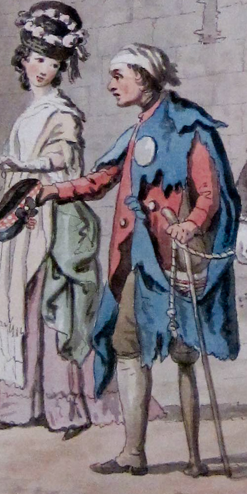 Taken from print held by The National Gallery, Edinburgh - with permission.